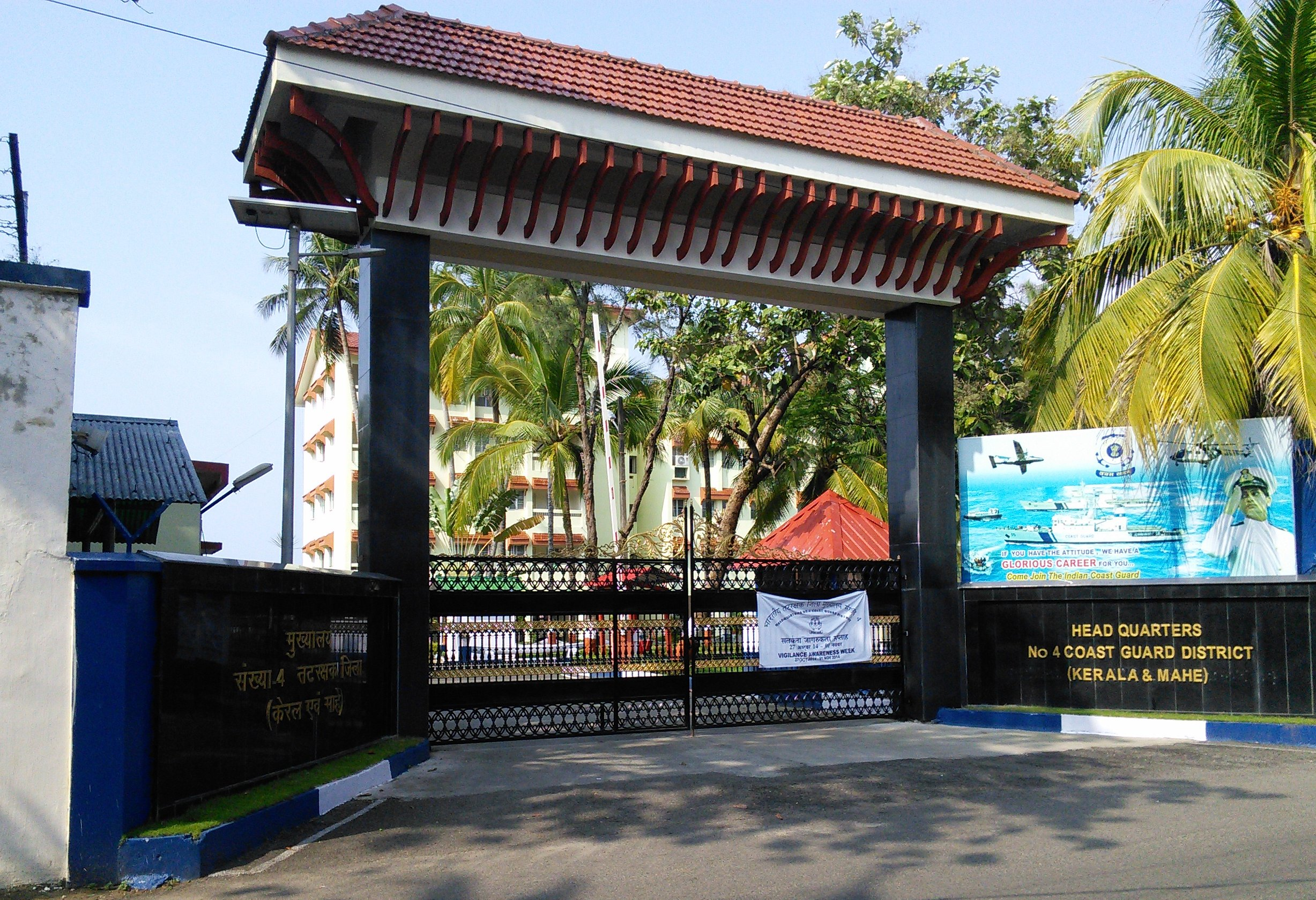 coast guard head quarters cochin